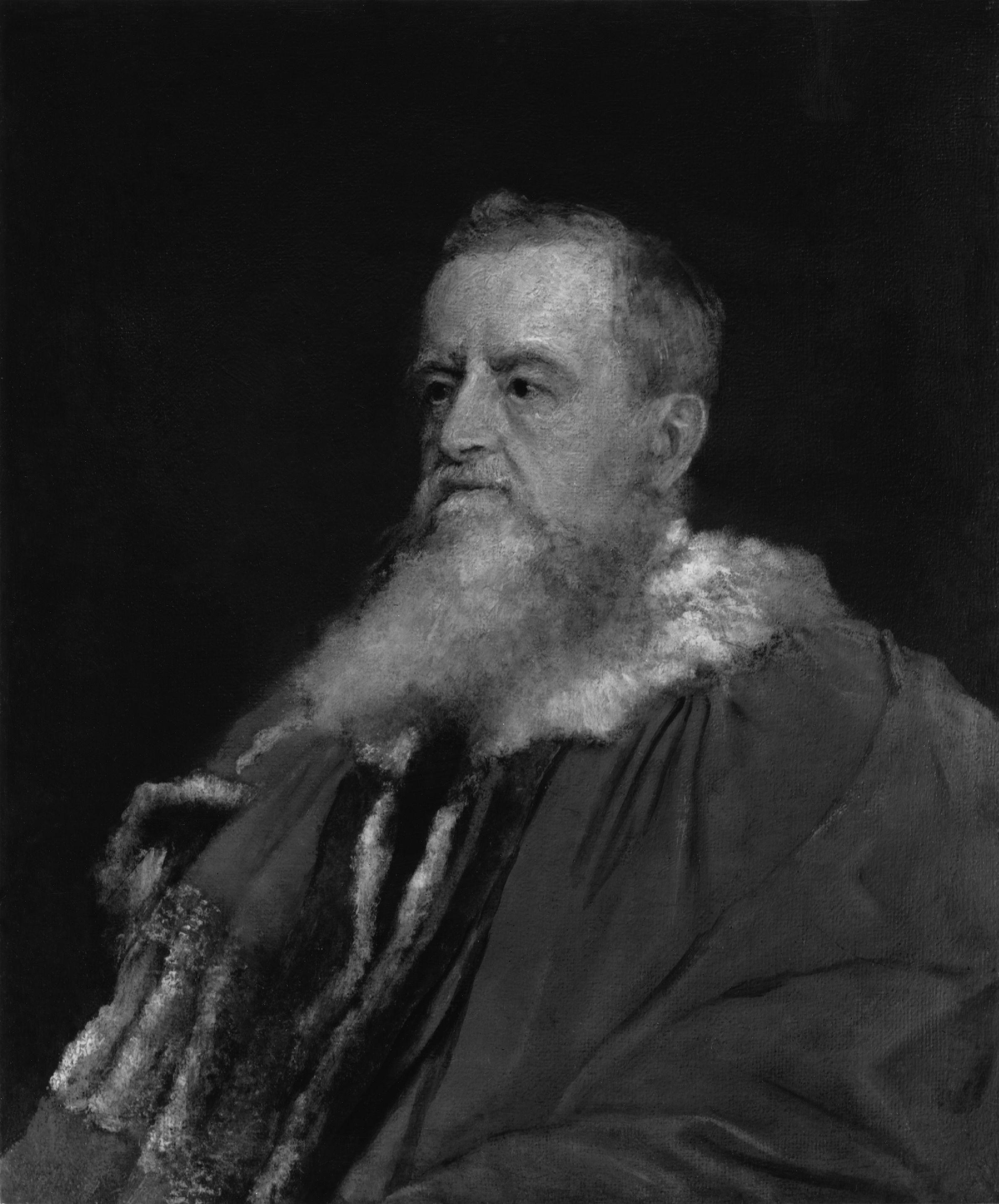 George Robinson, 1st Marquess of Ripon (1827-1909)